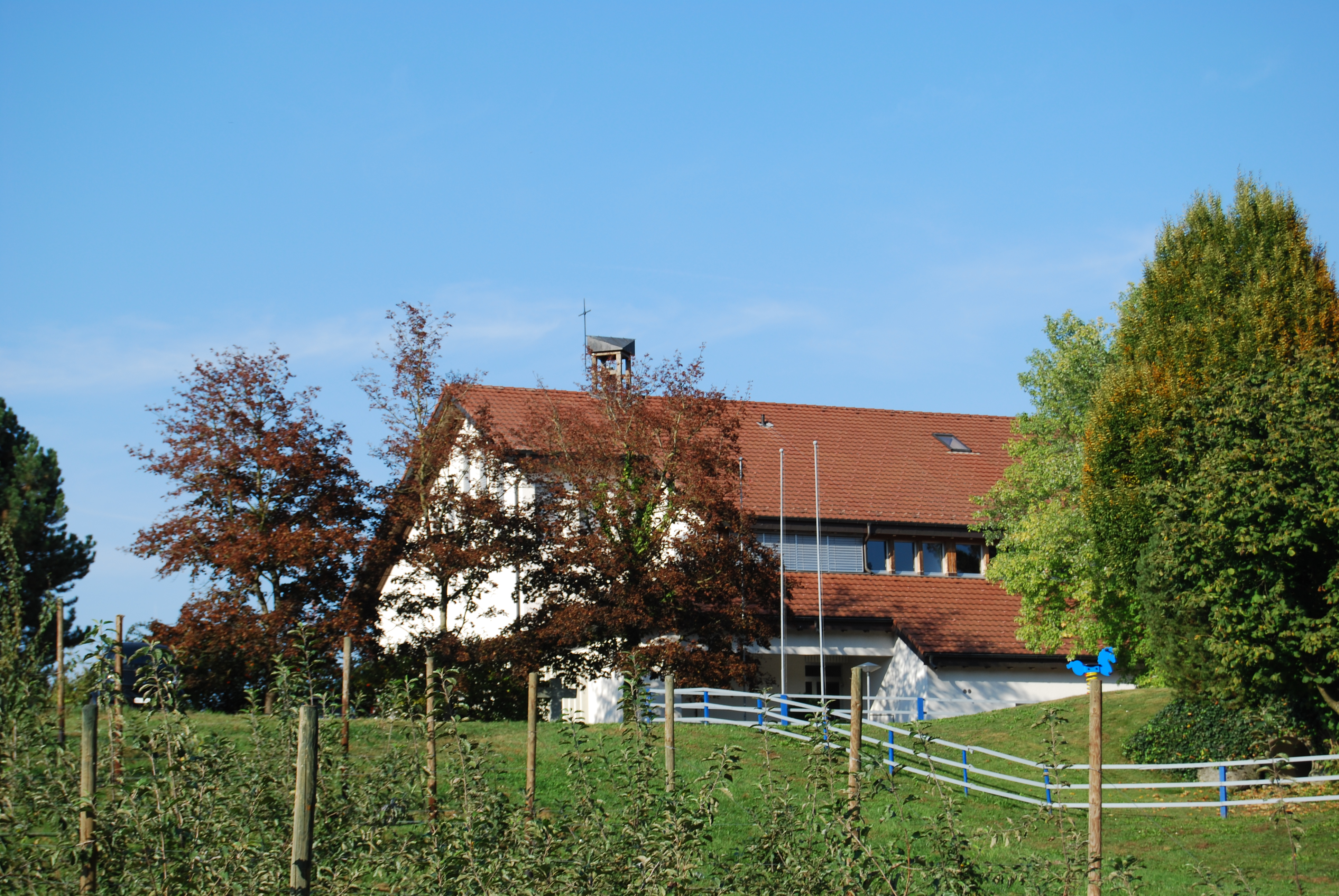 Benzenschwil, canton of Aargau, SwitzerlandEsperanto: Benzenschwil, Kantono Argovio, Svislando